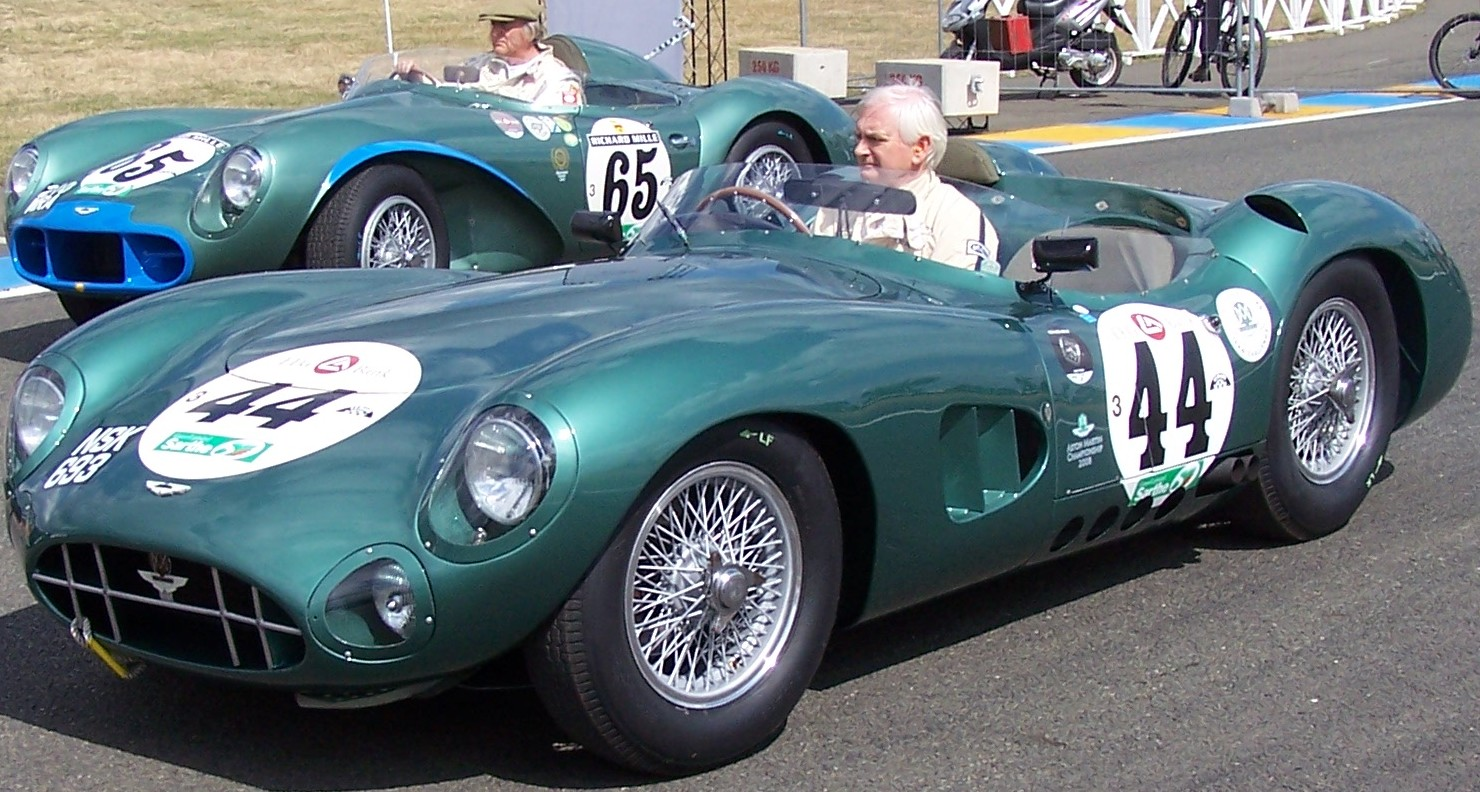 It is an Aston Martin DBR1. Driver is its owner Adrian Beecroft.